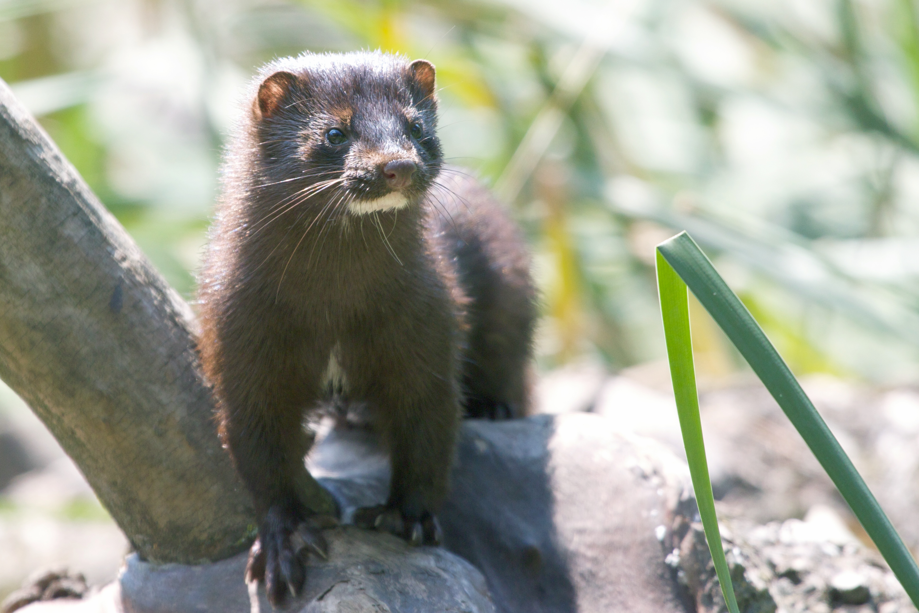 Neovison vison vison in Swansea, Toronto